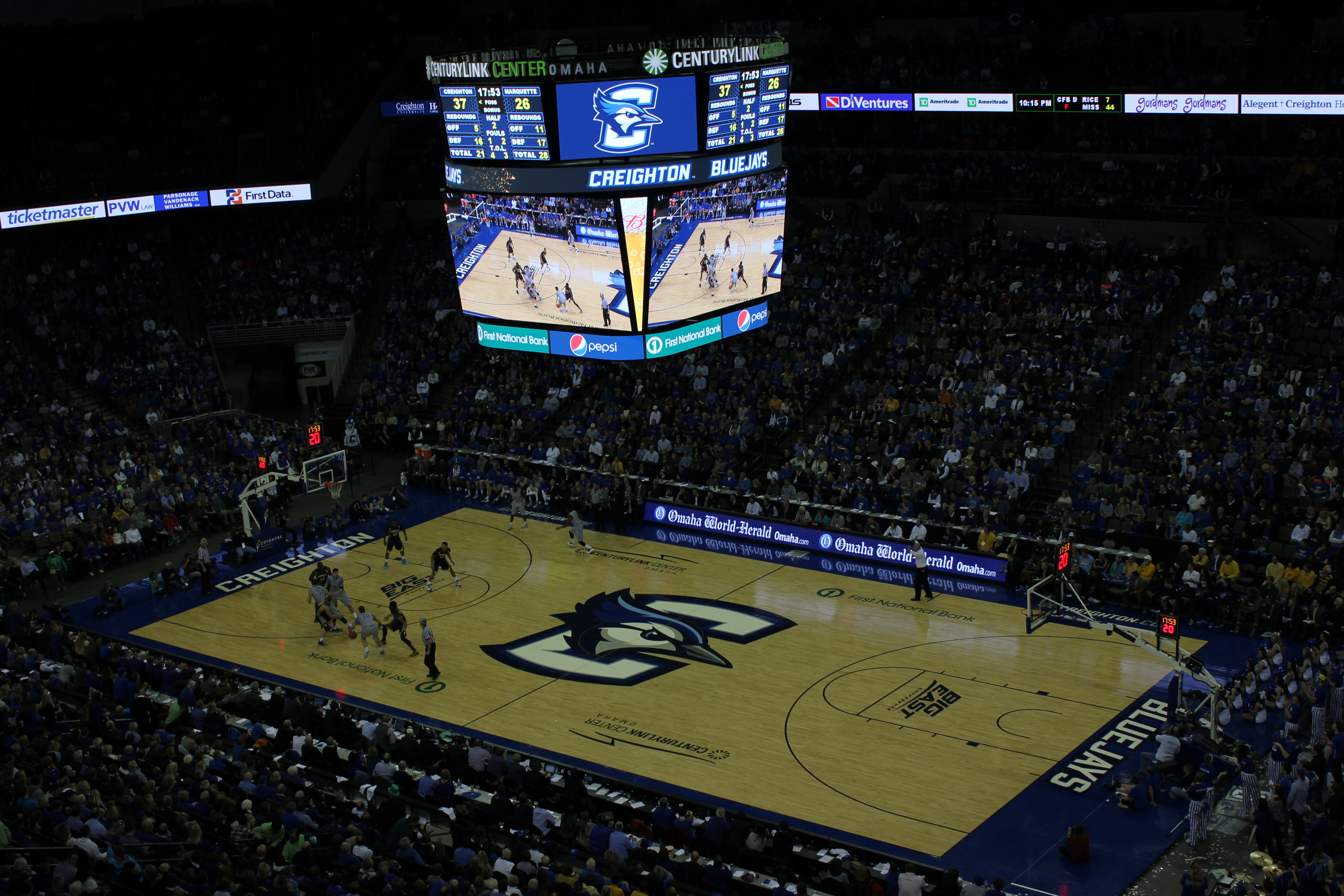 First Big East game vs Marquette on 12/31/13.